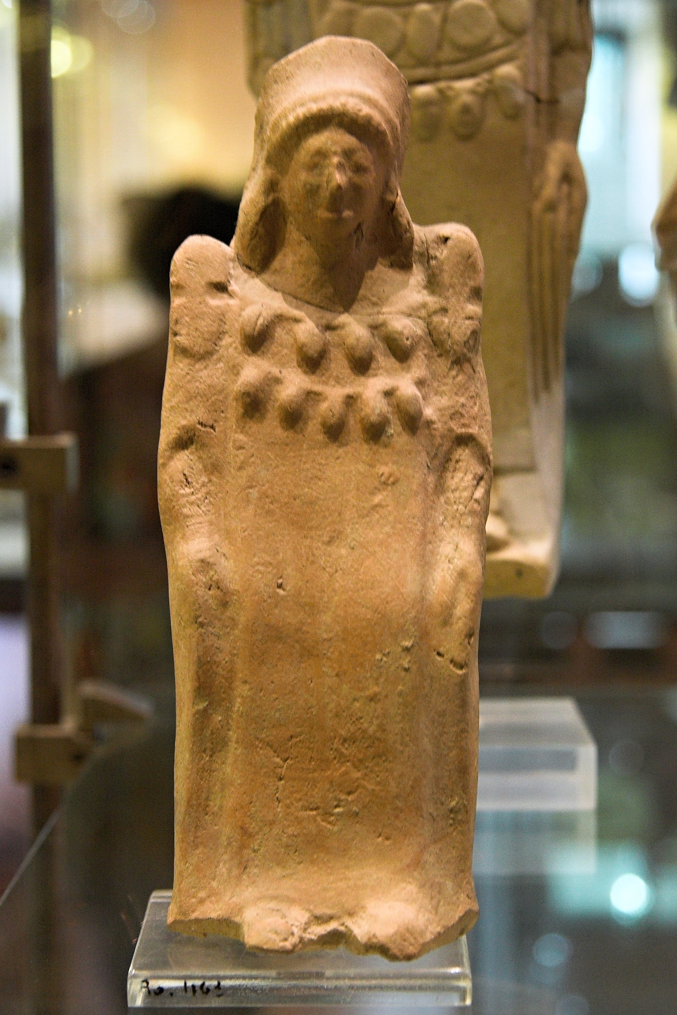 Statuette of a seated goddess (Demeter), decorated with a triple necklace. It is likely at offerings they reproduce in miniature the original statue of divinity. Small terracottas, ca 520-500 BC. Archaeological Museum of Agrigento, case 50.